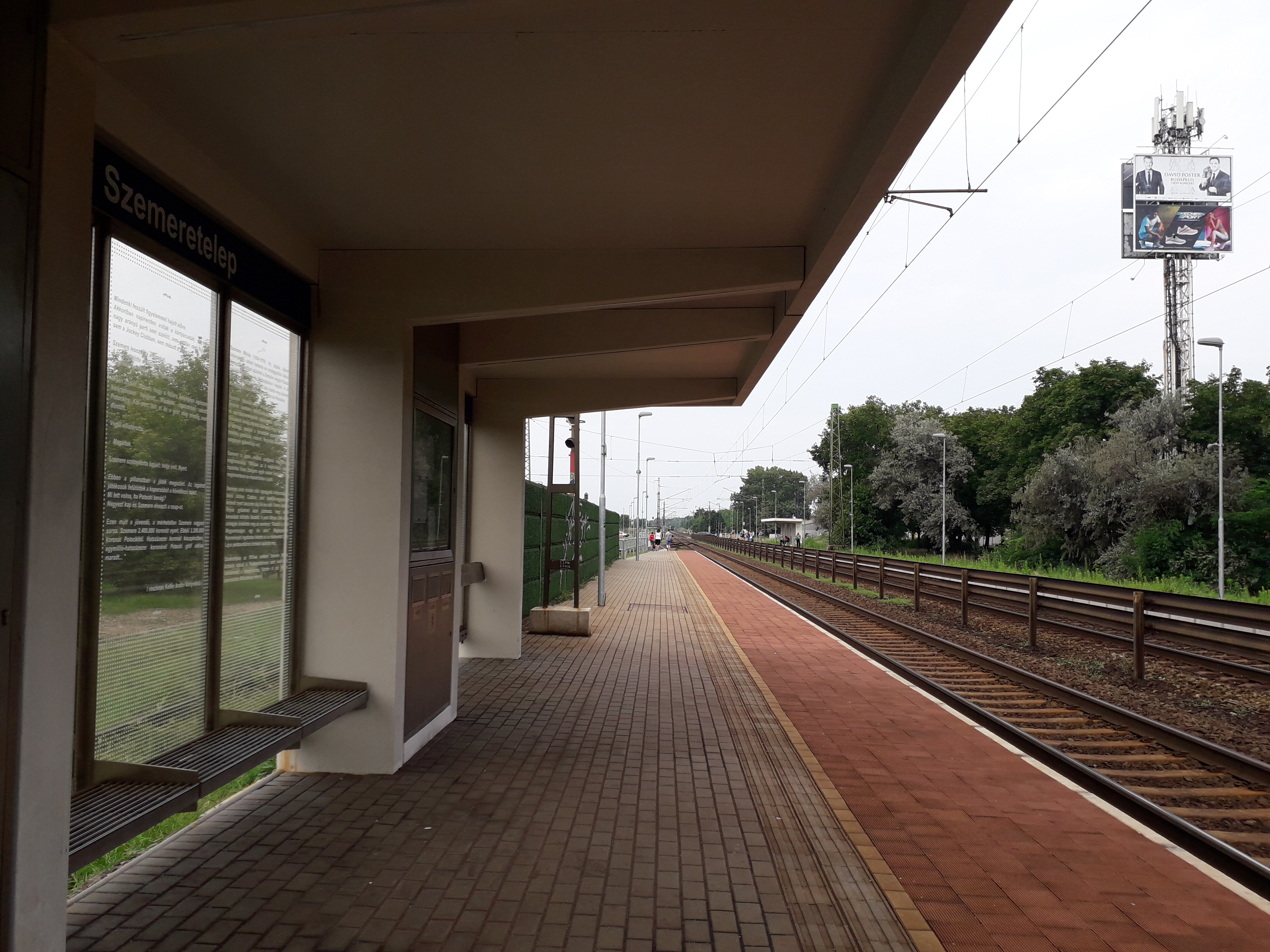 Szemeretelep station after rebuilding